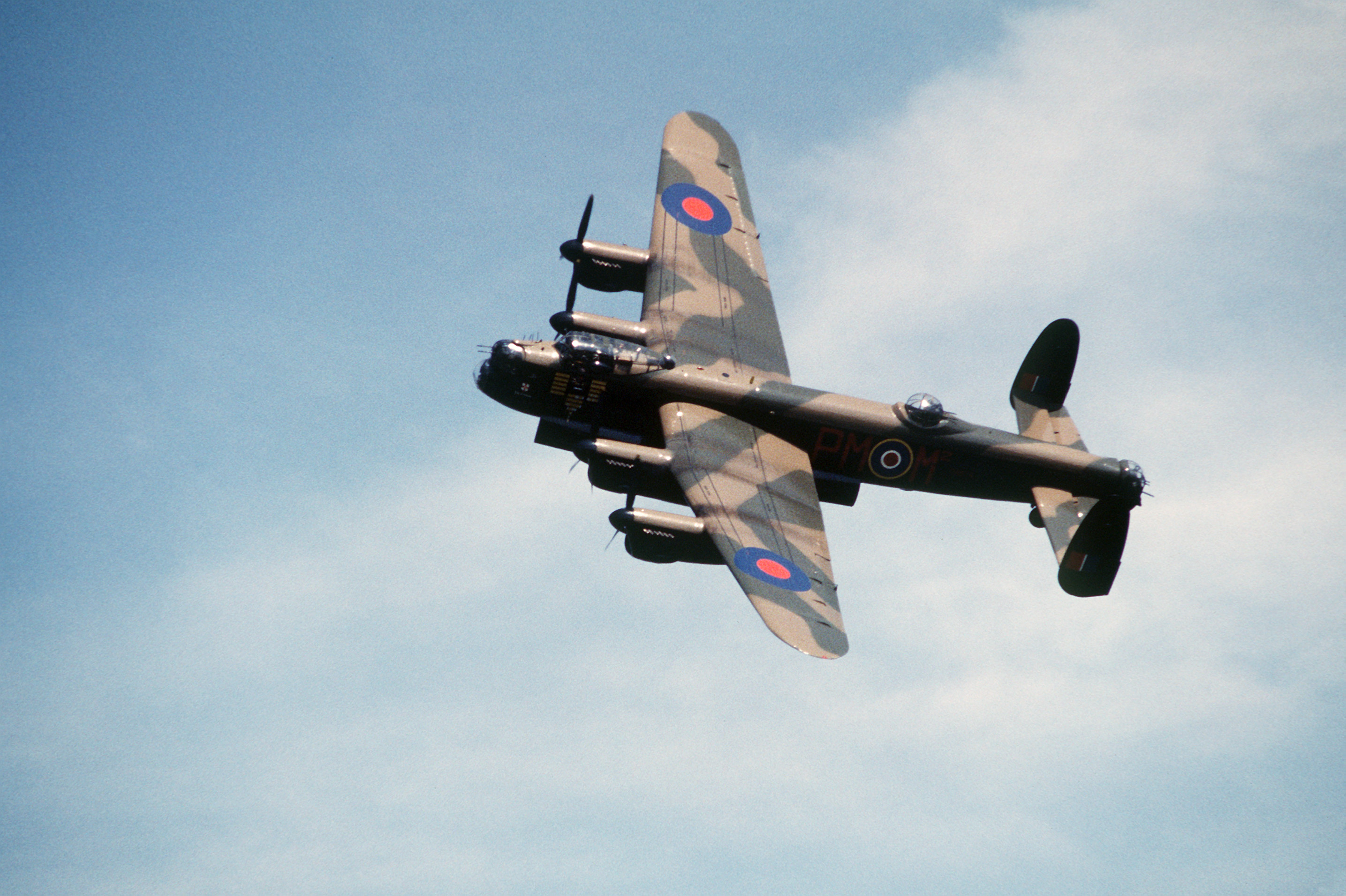 A Royal Air Force Avro Lancaster B Mk. I (serial number PA474) in flight during Air Fete'88, a NATO aircraft display hosted by the U.S. Air Force's 513th Airborne Command and Control Wing, at RAF Mildenhall, Suffolk (UK). PA474 is one of only two Lancasters remaining in airworthy condition out of the 7377 that were built – the other being in Canada. She was built in Chester in mid-1945 and was earmarked for the "Tiger Force" in the Far East. However, the war with Japan ended before she could take part in any hostilities. She was therefore assigned to Photographic Reconnaissance duties with 82 Squadron, RAF, in East and South Africa. While operating with 82 Squadron, PA474 had her turrets removed. In 1964 she was adopted by the Air Historical Branch (RAF) for future display in the proposed RAF Museum at Hendon. Since 2007, PA474 wears the markings of EE139, the "Phantom of the Ruhr"', that flew her first 30 strikes with No 100 Squadron based at Waltham before completing a further 91 operations with No 550 Squadron at North Killingholme. She sports the letters HR-W of "The Ton" on her port side and BQ-B of 550 on her starboard, commemorating the crews of both squadrons.